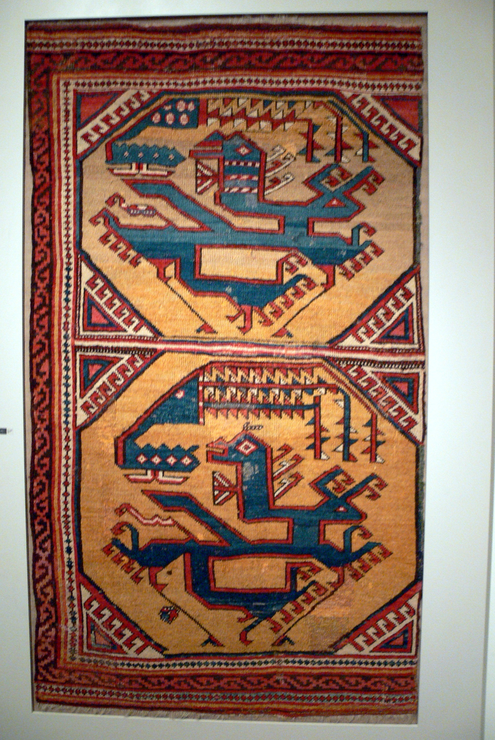 Museum of Islamic Art ( Berlin ). Dragon-Phoenix tapestry ( 15th century ), wool, from Turkey, Inv.-Nr. I 4.